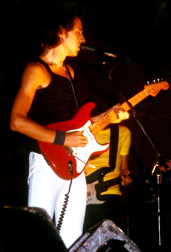 Dire Straits - Mark Knopfler performing in July, 1979